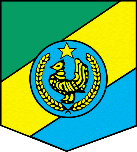 Inland Water Transport seal မြန်မာဘာသာ: ပြည်တွင်းရေကြောင်း ပို့ဆောင်ရေး